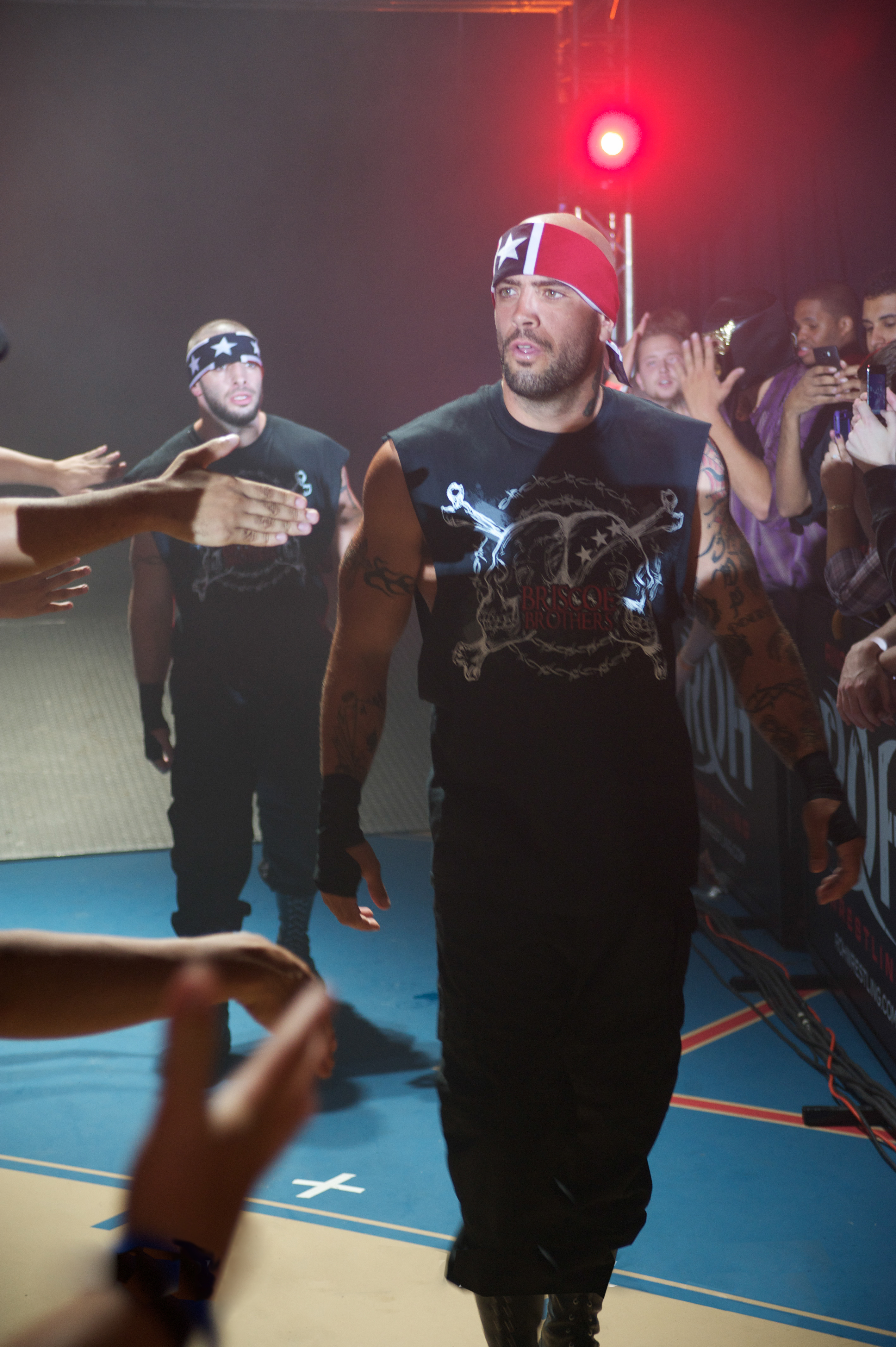 Mark (left) and Jay Briscoe at a Ring of Honor show on August 13, 2011.